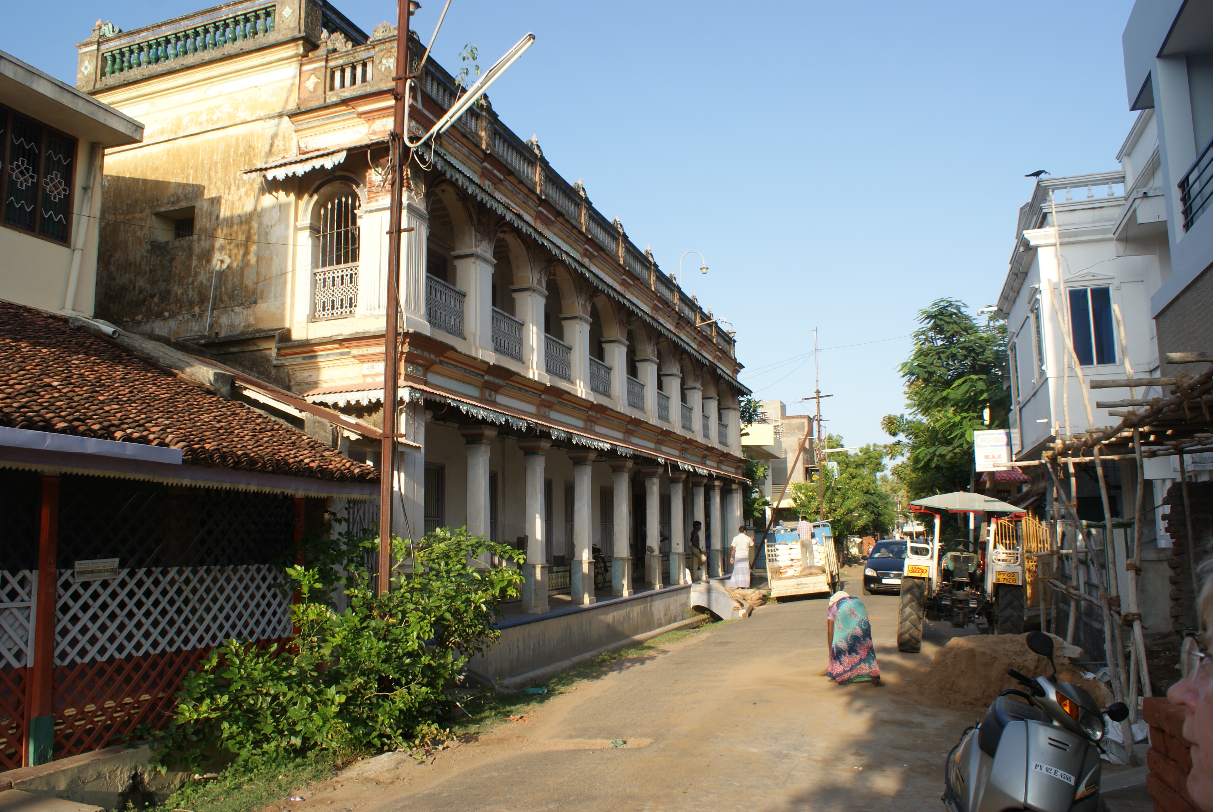 House from the French colonial era in Karaikal